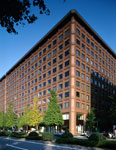 Ohe-Bashi Tokyo Office